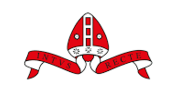 Sompting Abbotts Crest